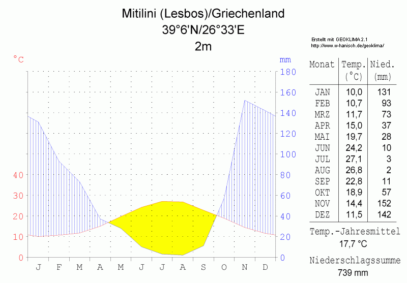 climate chart in the format by Walther and Lieth, metric, °Celsisus and millimeters, made with Geoklima 2.1